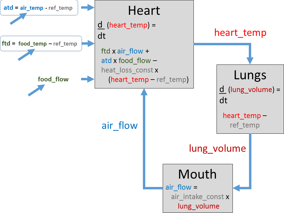 Model of the temperature of the heart based on Aristotle's biology, assuming a reference temperature. The negative feedback leads to a stable temperature; additional instabilities would be needed to create an oscillation as Aristotle supposed.